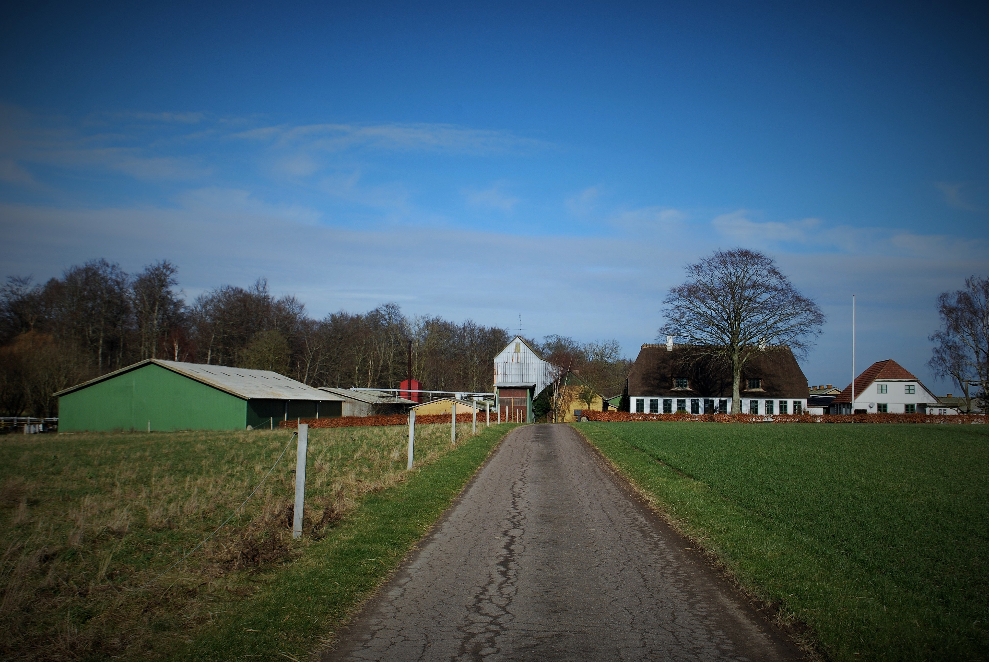 Farm on Kær Halvø, island of Als, Denmark